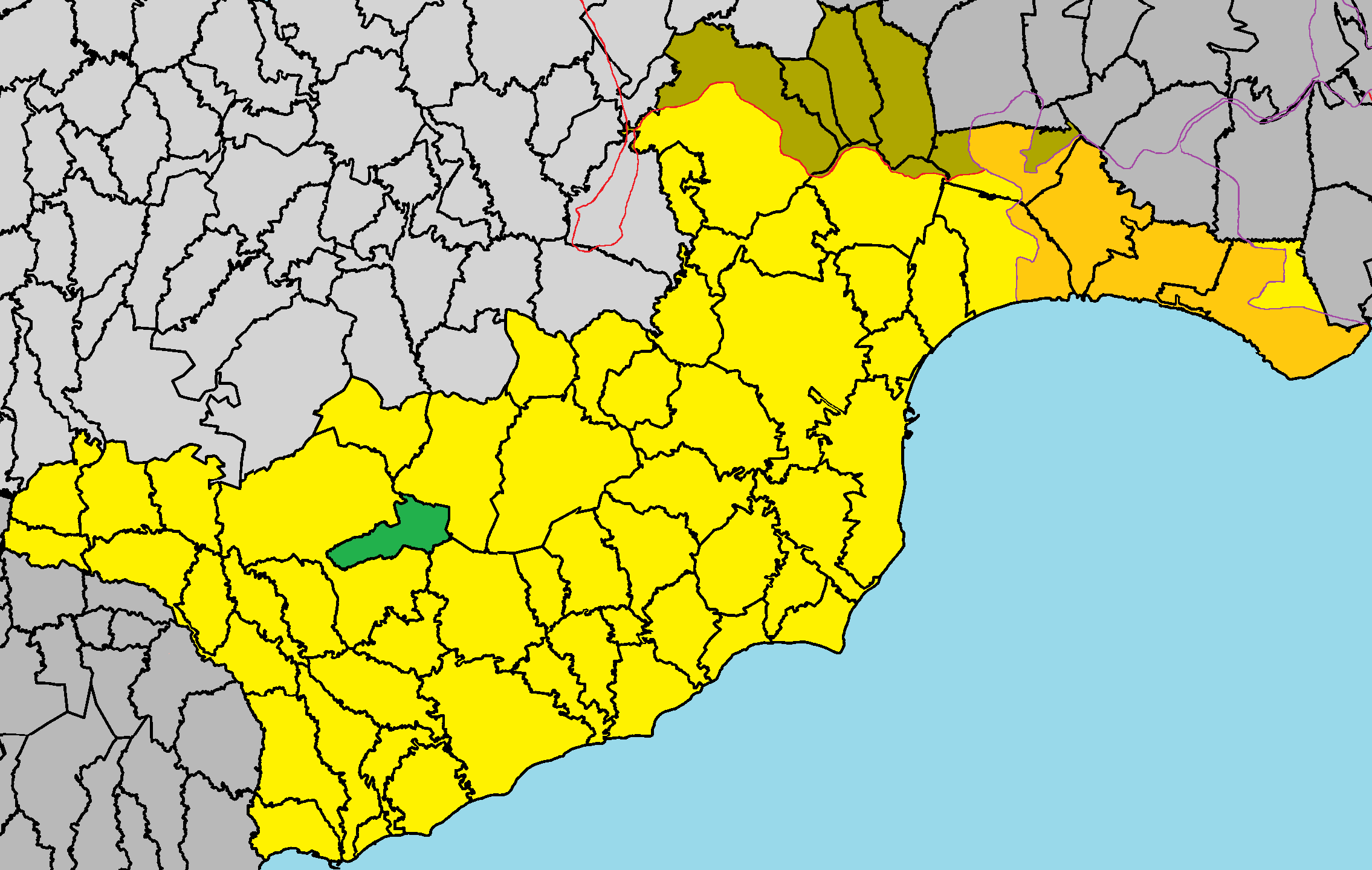 Kato Lefkara in Larnaca District.